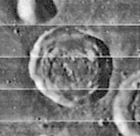 Ritter lunar crater - image LOIV-085-h1